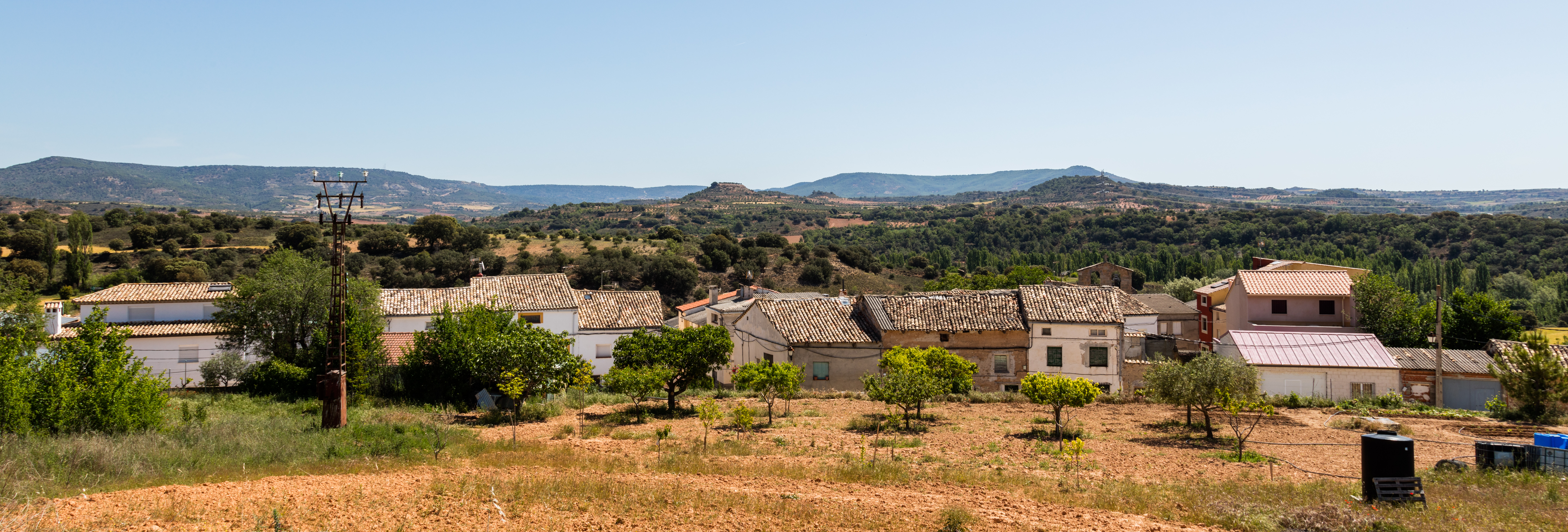 Salmeroncillos de Arriba, Cuenca, Spain